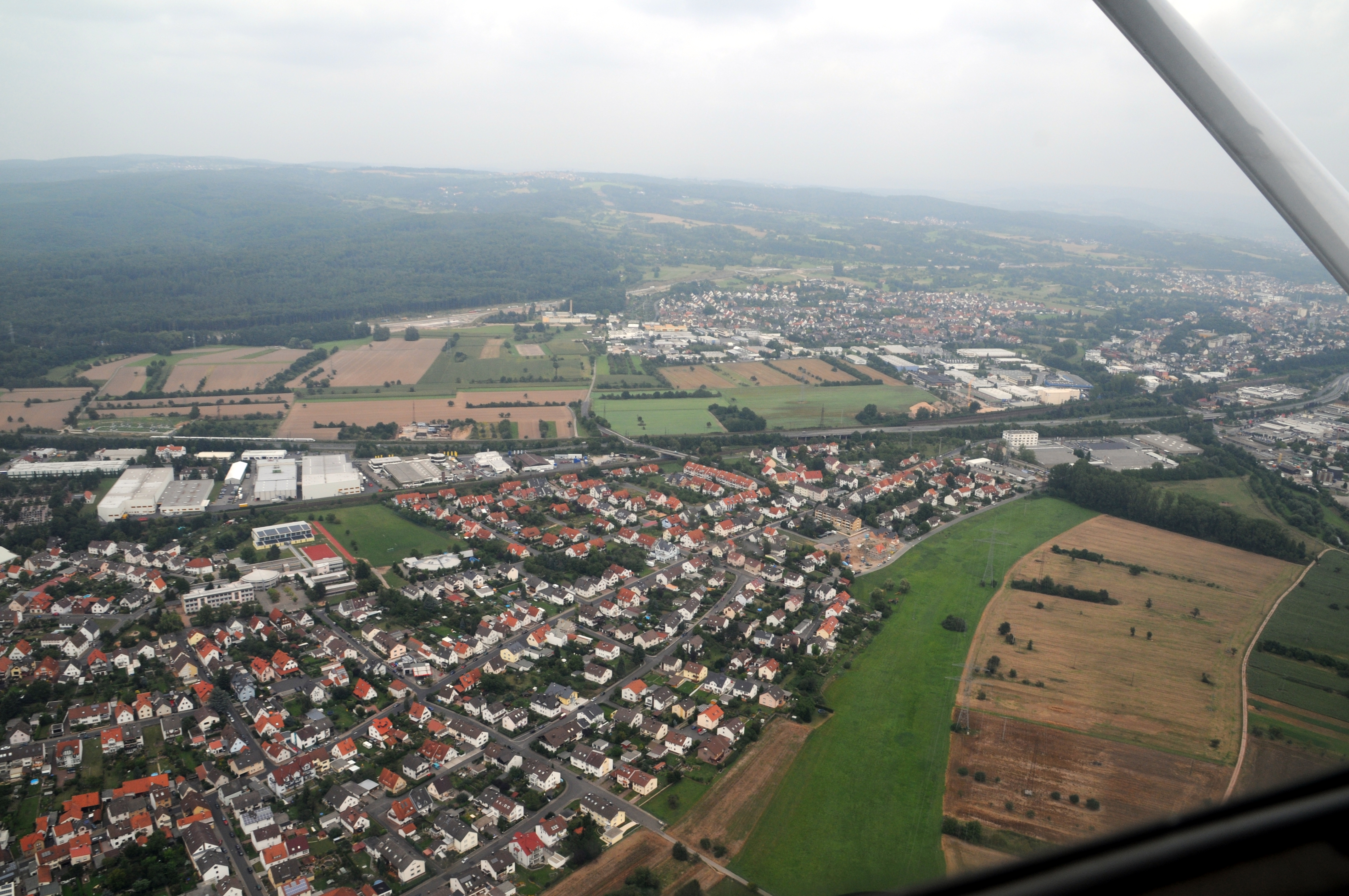 Mainaschaff, Bavaria, Germany, aerial photograph